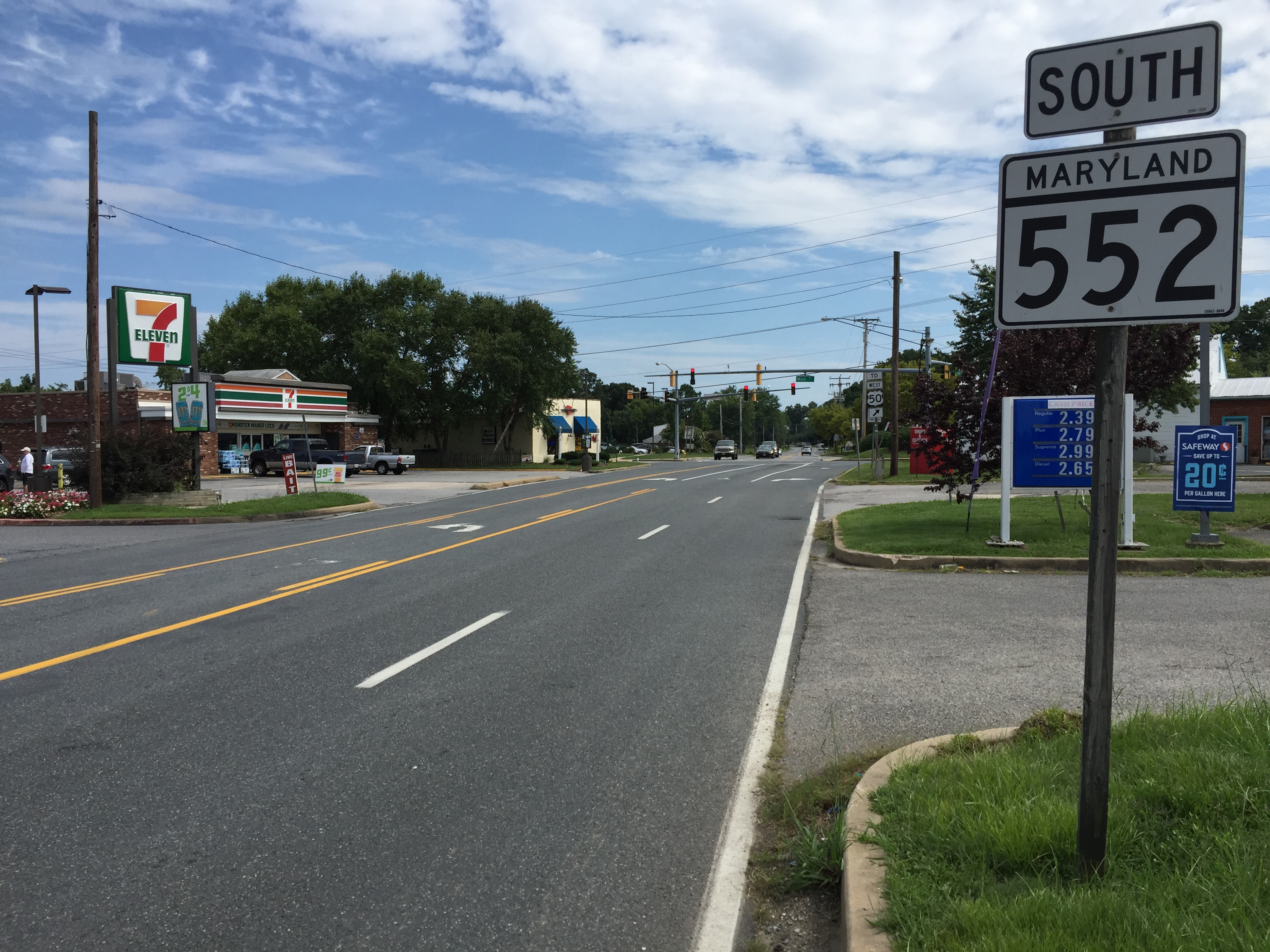 View south along Maryland State Route 552 (Dominion Road) at U.S. Route 50 and U.S. Route 301 (Blue Star Memorial Highway) in Chester, Queen Anne's County, Maryland